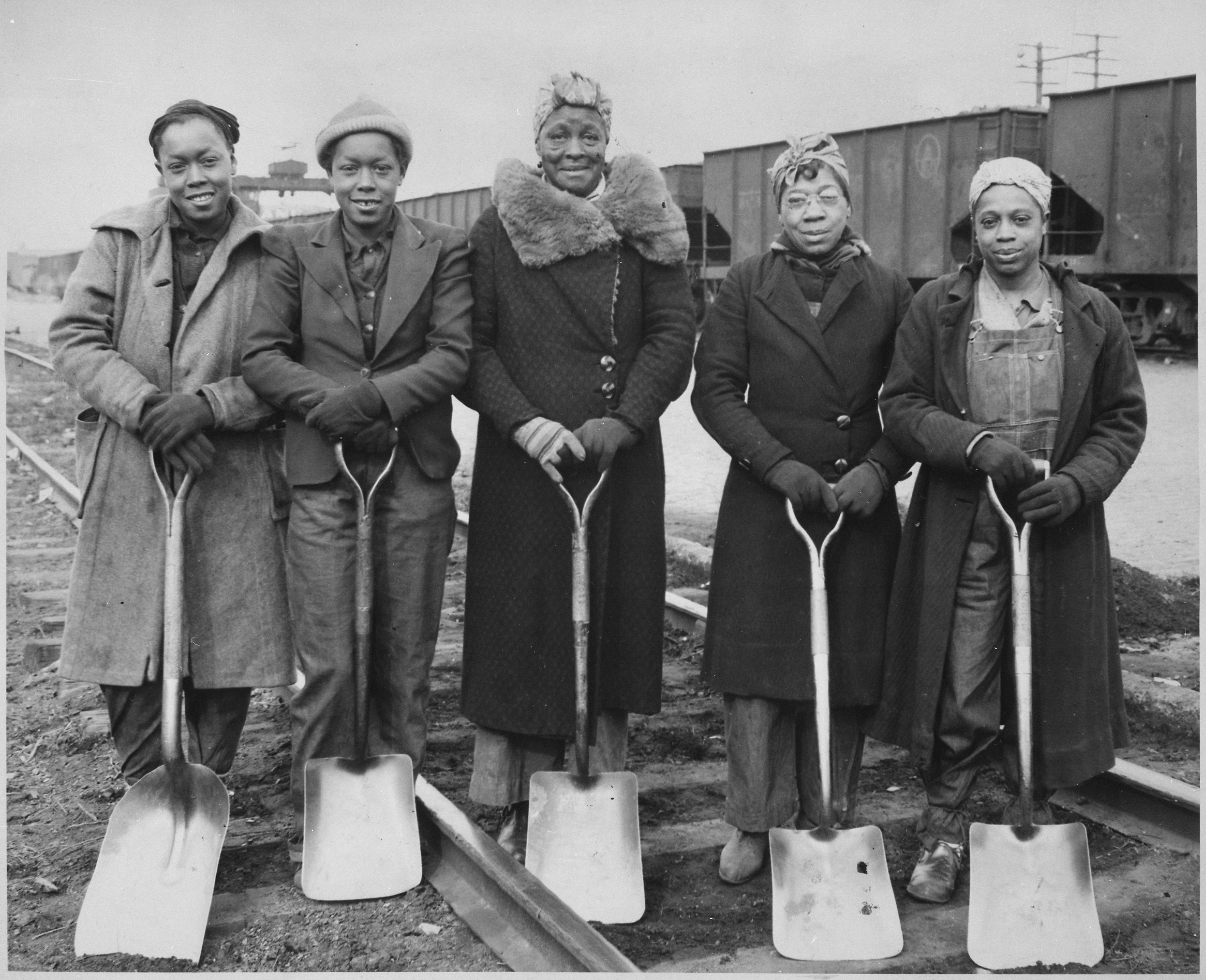 Original Caption: Trackwomen, 1943. Baltimore & Ohio Railroad Company, 1940 - 1945 U.S. National Archives' Local Identifier: 86-WWT-78(30) Subjects: World War, 1939-1945 Labor Women Persistent URL: For more information about records related to women and women’s issues at the U.S. National Archives, visit: Repository: Still Picture Records Section, Special Media Archives Services Division (NWCS-S), National Archives at College Park, 8601 Adelphi Road, College Park, MD, 20740-6001. For information about ordering reproductions of photographs held by the U.S. National Archives' Still Picture Unit, visit: Reproductions may be ordered via an independent vendor. The U.S. National Archives maintains a list of vendors at Access Restrictions: Unrestricted Use Restrictions: Unrestricted